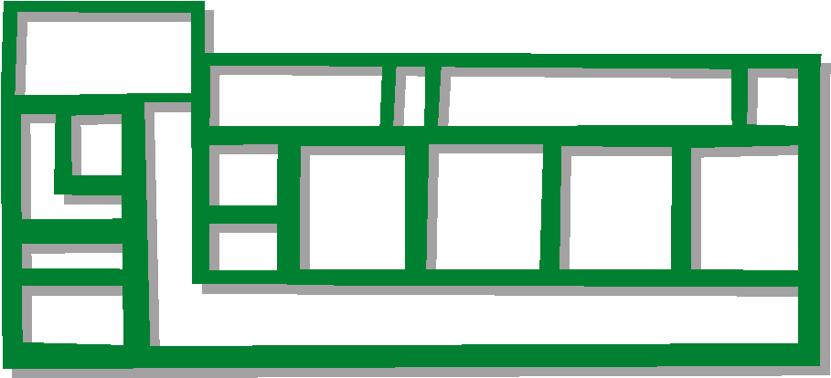 Roman Villa at Crofton, plan of the villa in the Third Century